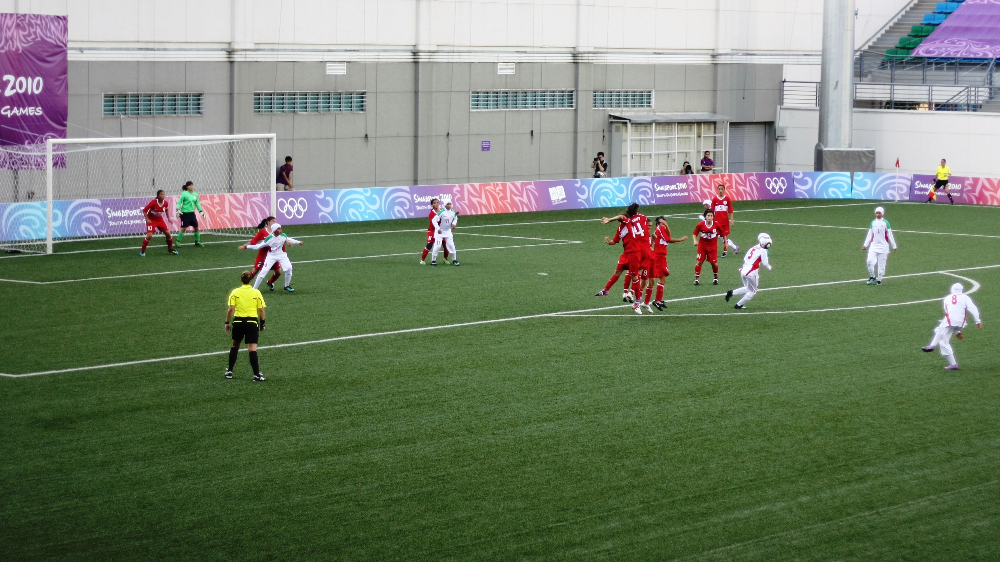 Singapore 2010 Youth Olympic Games Football, Iran vs Turkey (goal shoot)